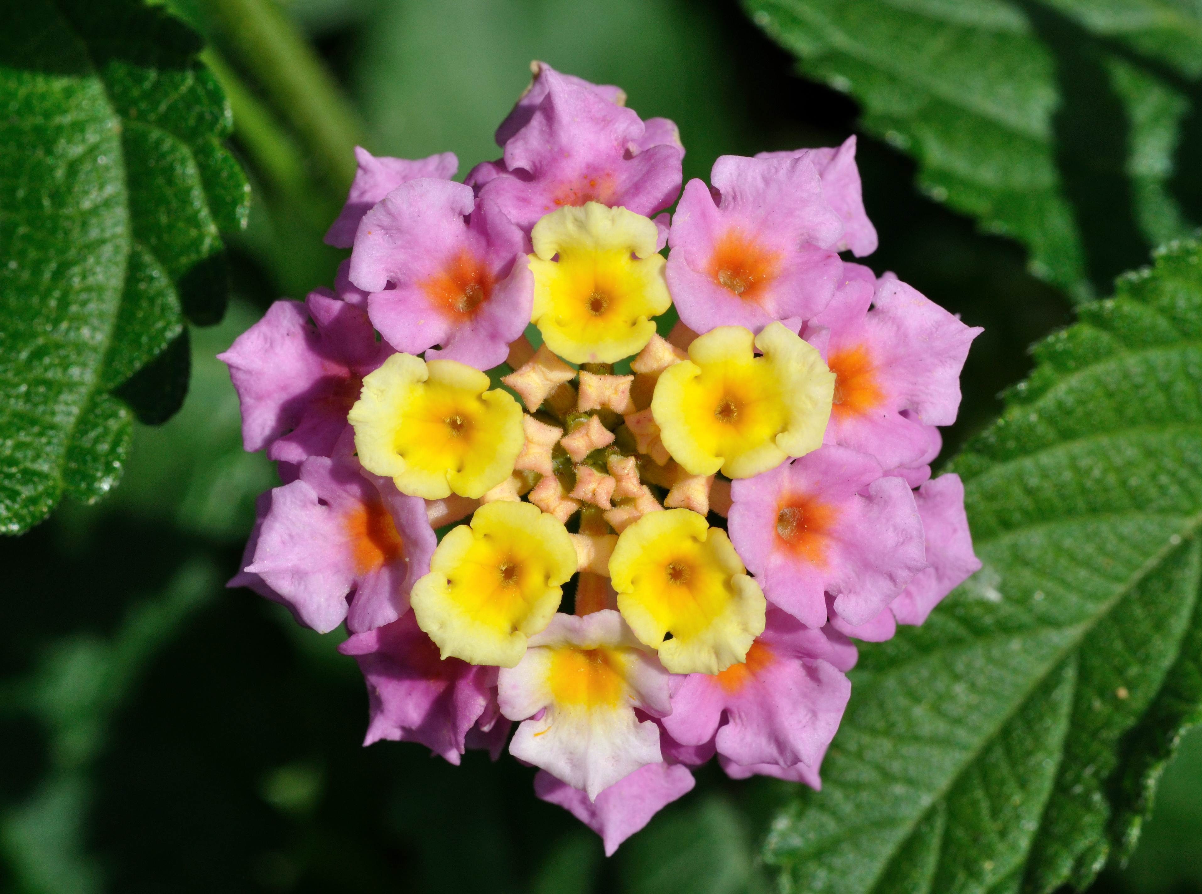 Flower of a West Indian Lantana (Lantana camara).